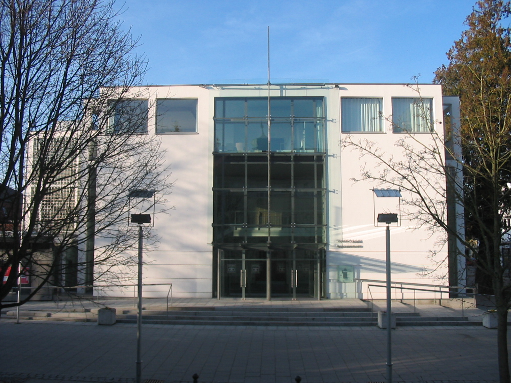 Dillingen Stadtsaal